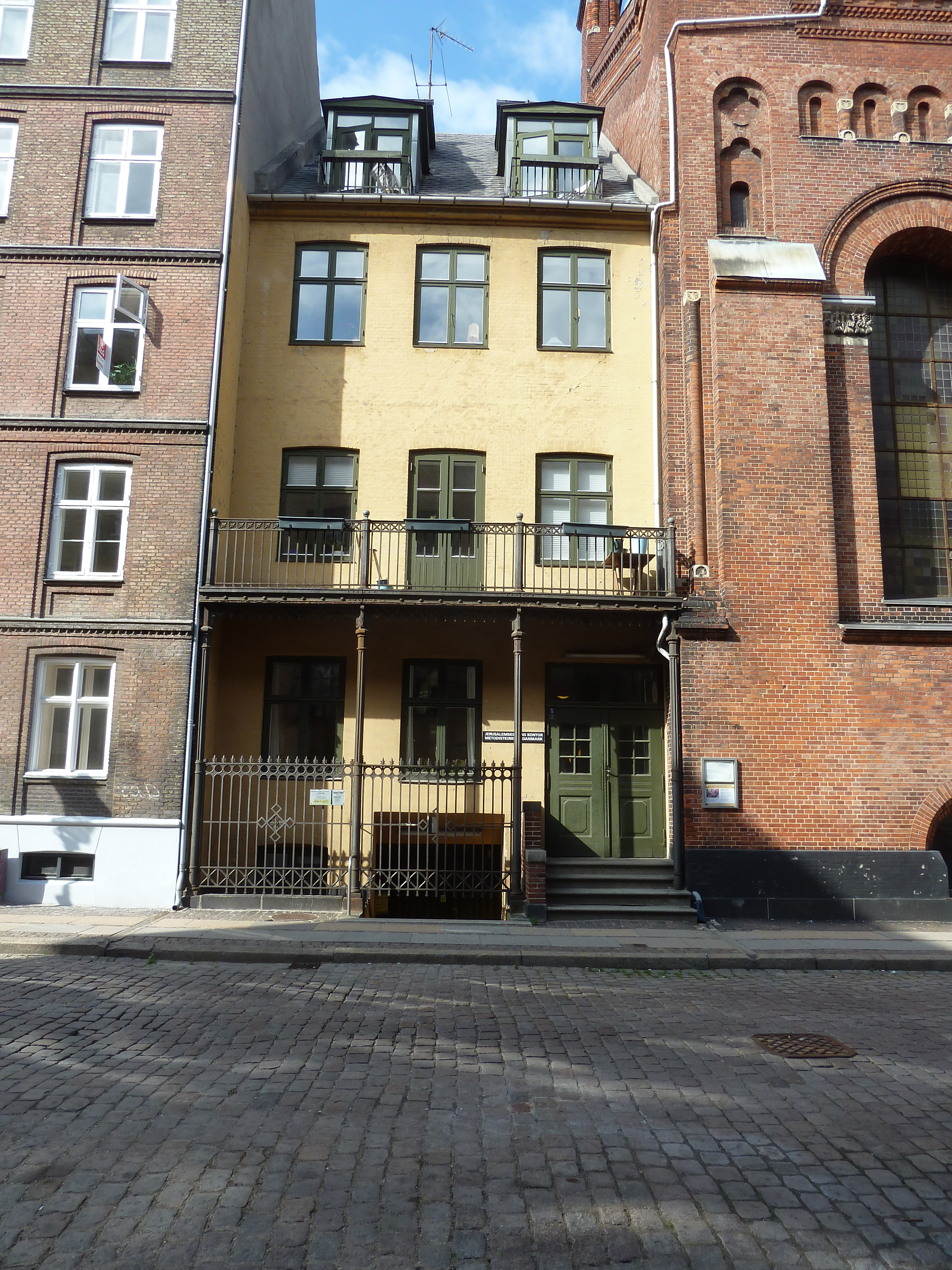 The office (Menighedshus?) of Jerusalemskirken in Copenhagen, Denmark